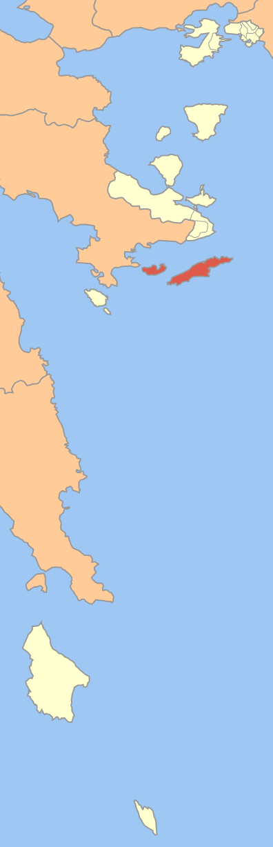 Locator map of Ydra municipality (Δήμος Ύδρας) in Pireas Nomarchia (Νομαρχία Πειραιά) in Greece.